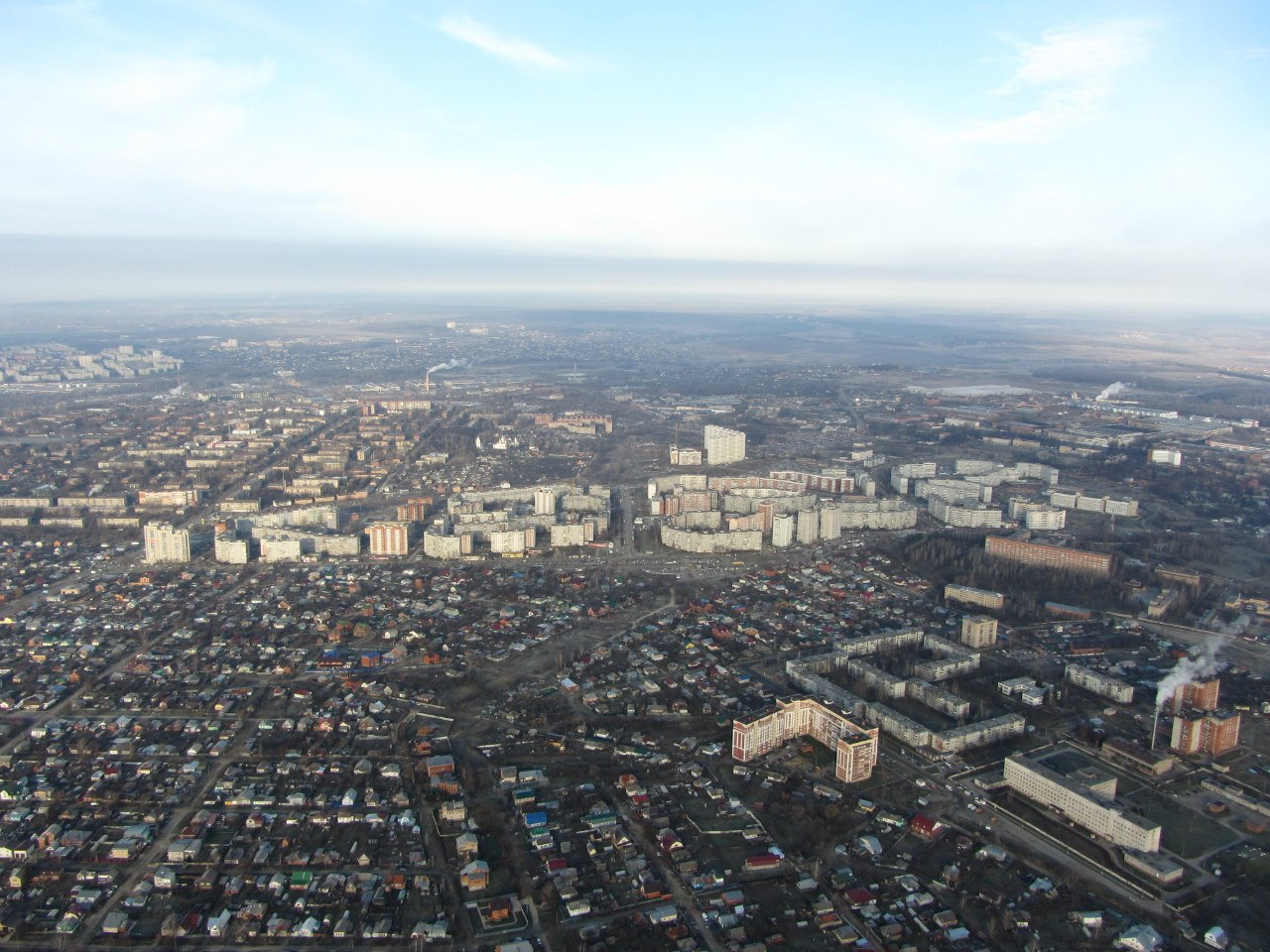 Вид на микрорайон Глушанки с высоты птичьего полета